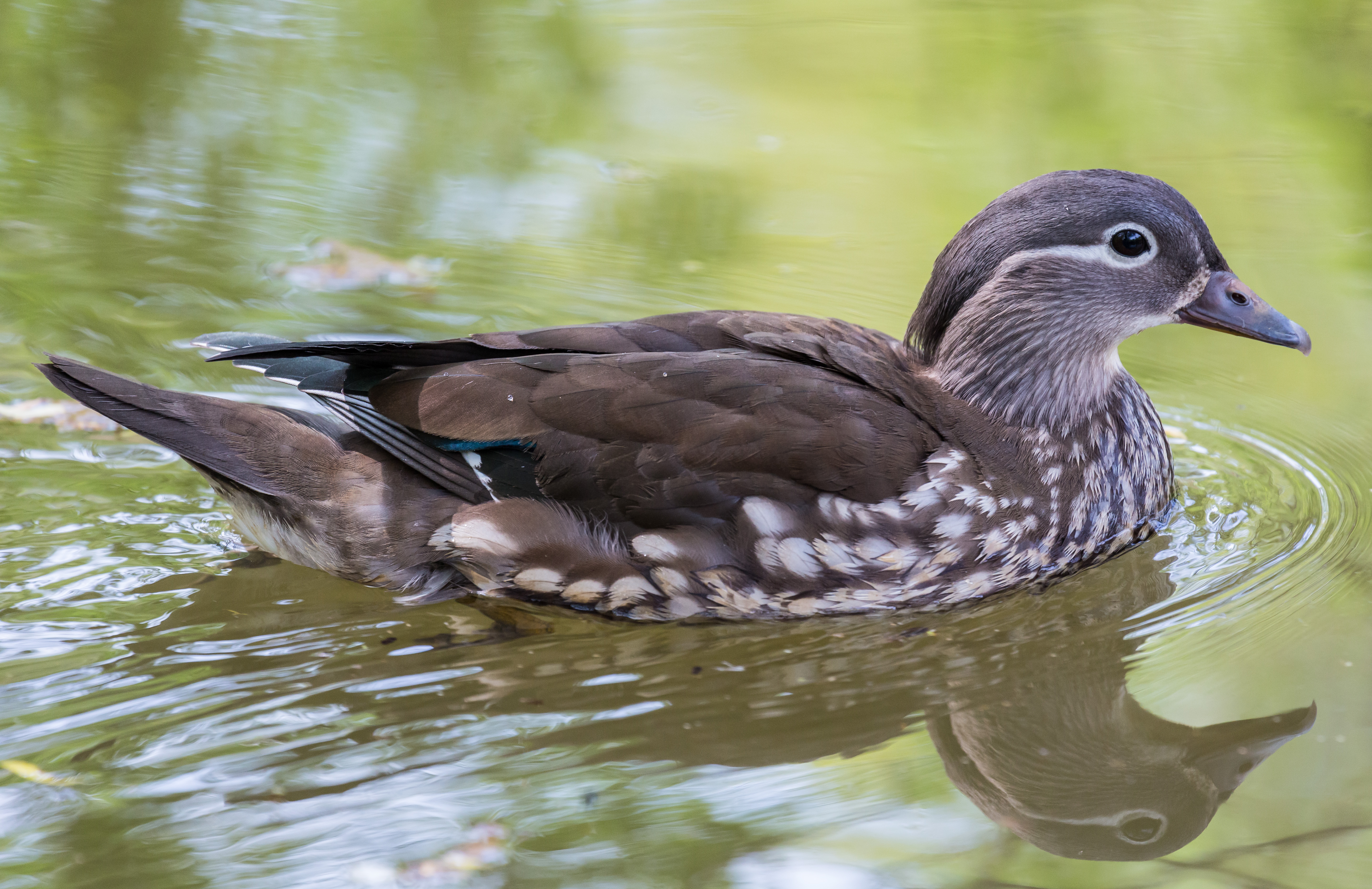 Aix galericulata / female Mandarin Duck at Isabella Plantation in Richmond Park, London, United Kingdom.